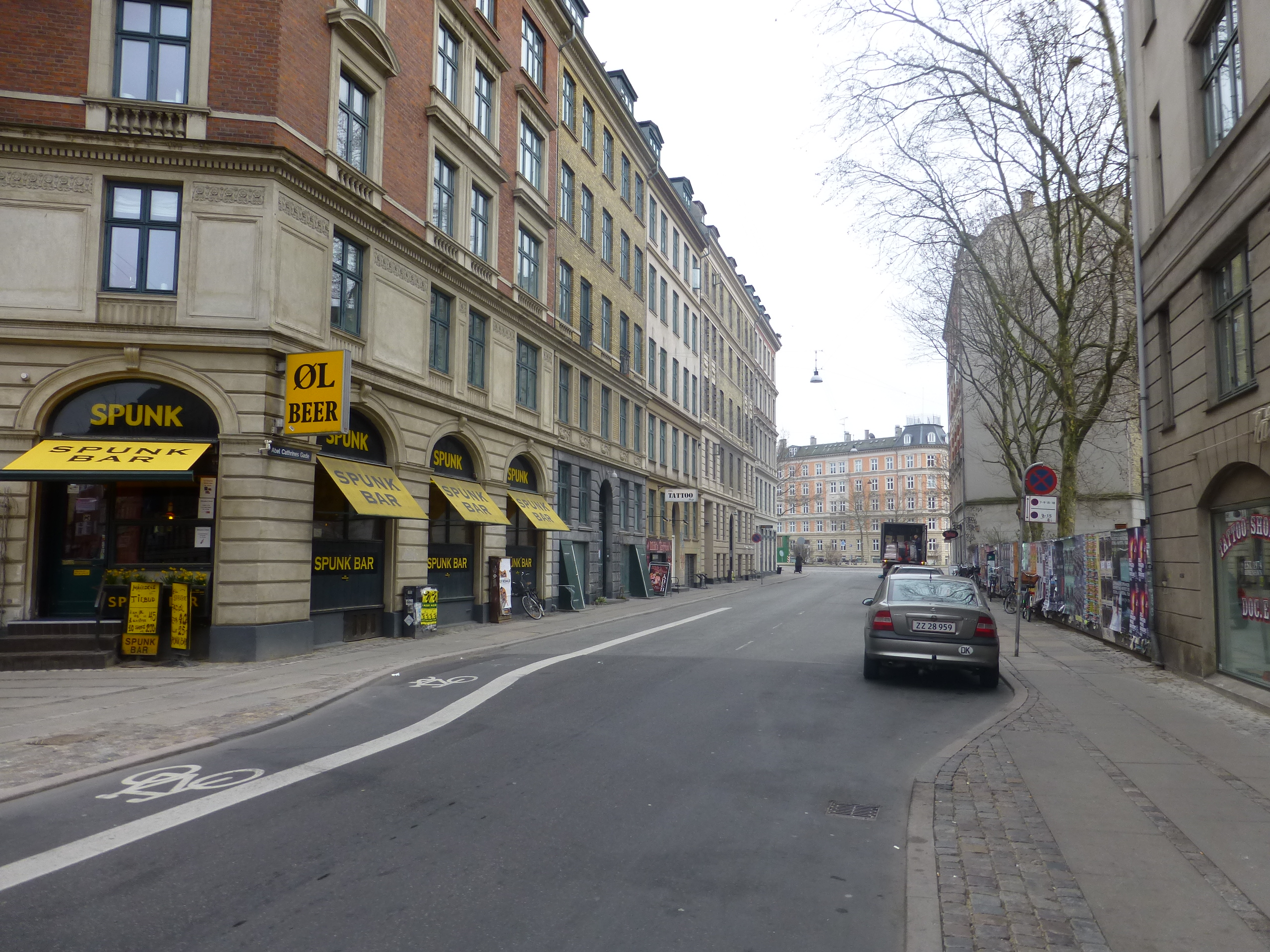 Abel Cathrines Gade is a street in Vesterbro in Copenhagen.